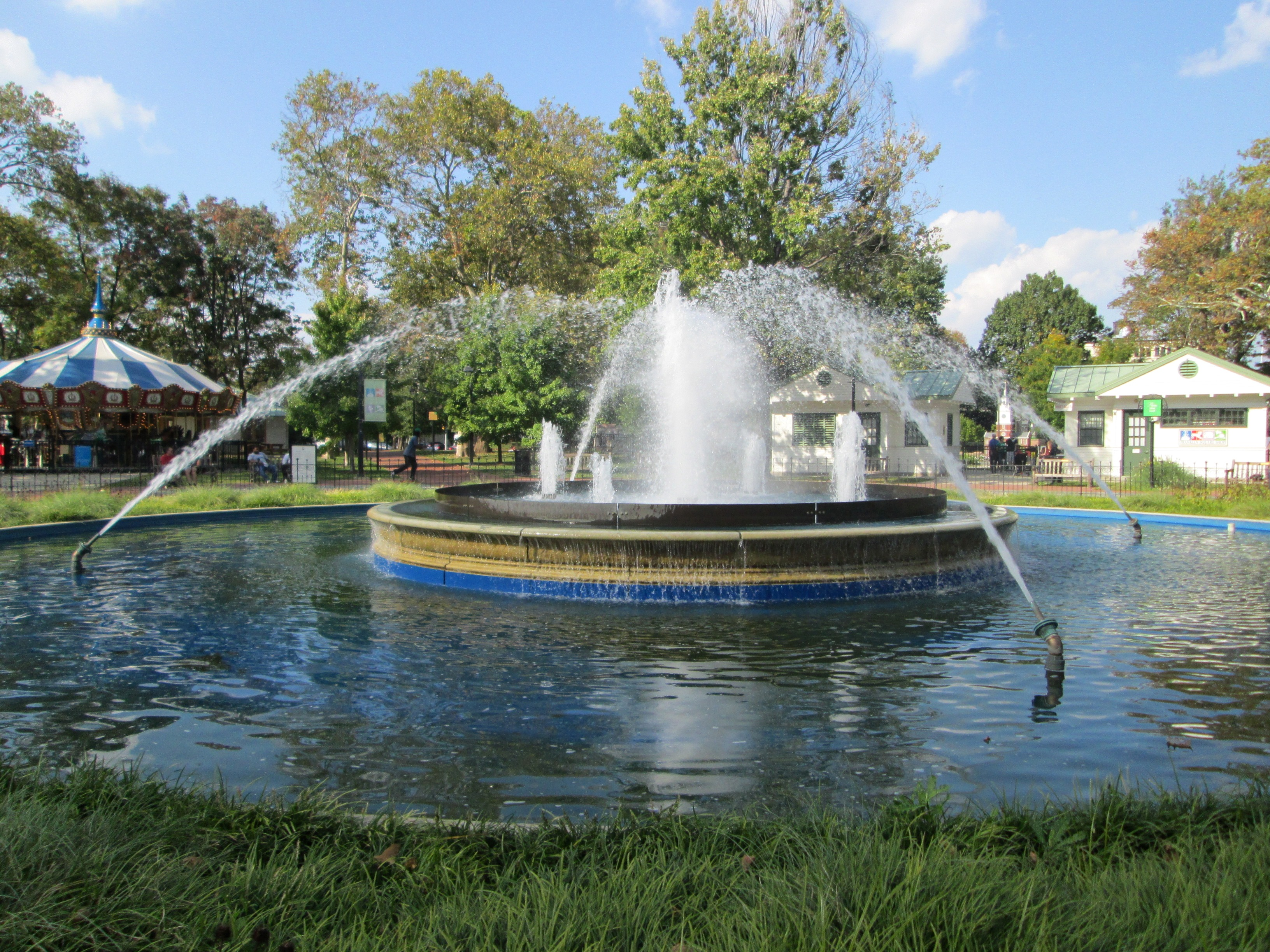 Franklin Square, located between North 6th and 7th Streets and Race Street and Interstate 676 in Center City, Philadelphia, is one of the five original open-space parks planned by William Penn when he laid out the city. Originally called Northeast Square, it was renamed in 1825 to honor Benjamin Franklin. The park, which is now managed and maintained by Historic Philadephia, was refurbished and rededicated in 2006.